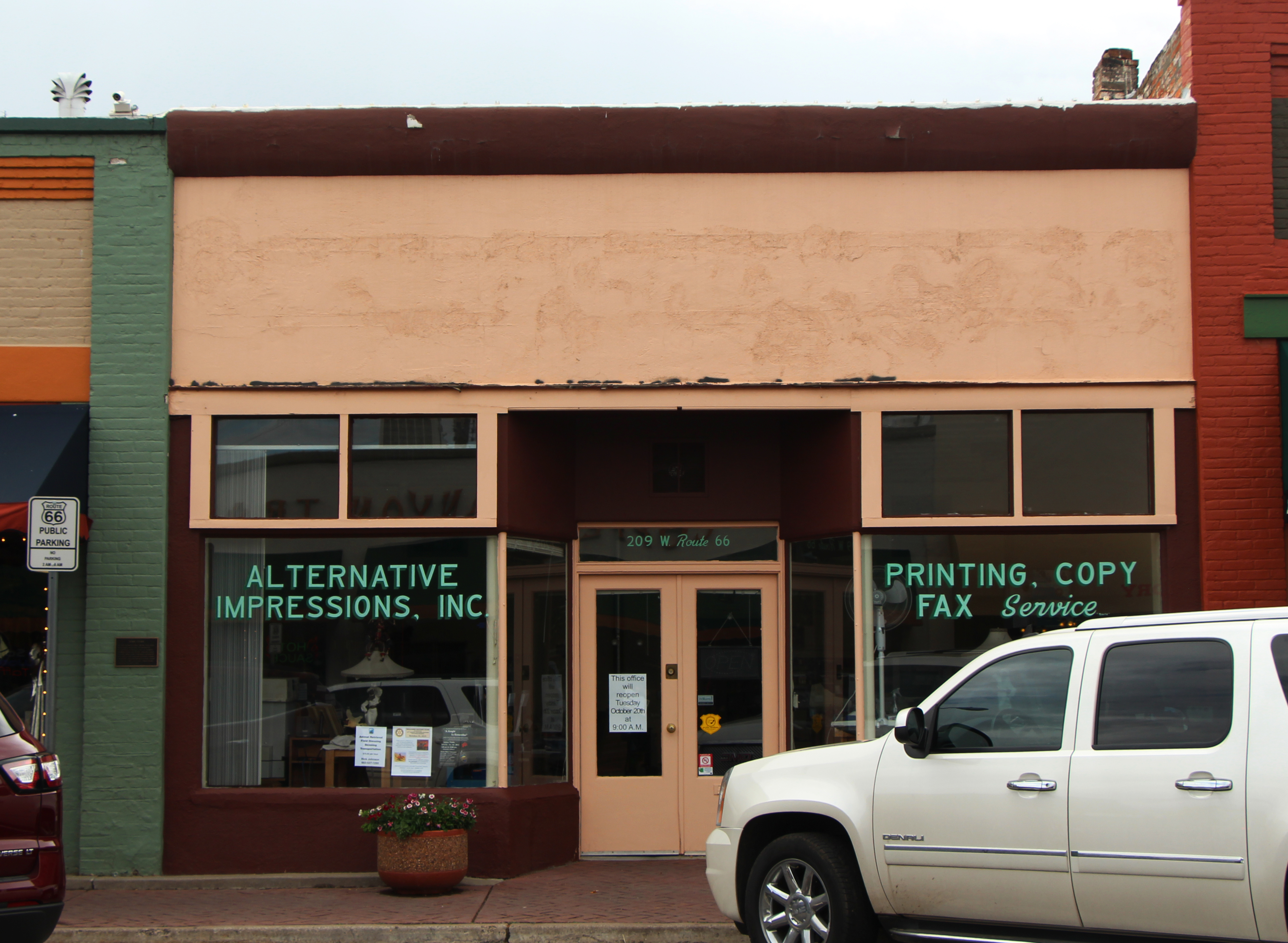 Dime Store, 209 W. Route 66, Williams, AZ